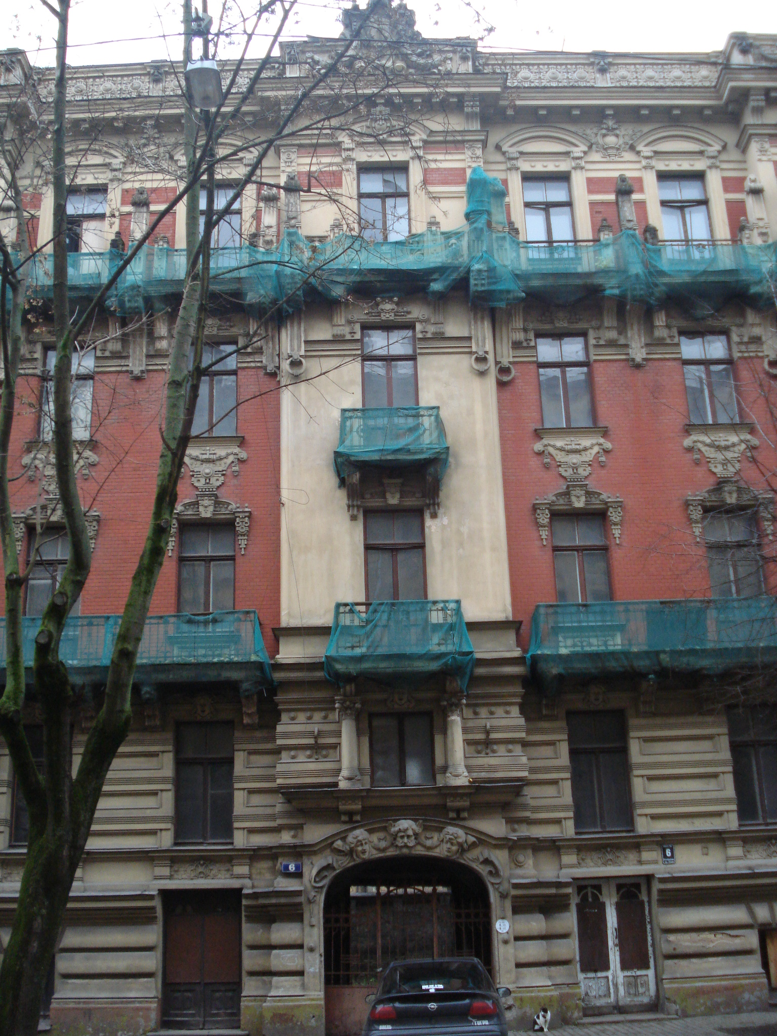 Art Nouveau Building in Riga, Alberta ielā 6. Architect Mikhail Eisenstein